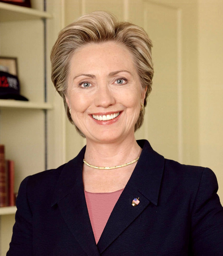 Hillary Rodham Clinton, United States Senator.